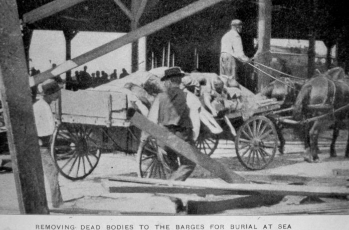 The Galveston Hurricane - Damage caused by the hurricane and storm surge. This was the greatest natural disaster in terms of loss of life in U.S. history; 6,000 to 8,000 individuals died in this hurricane.